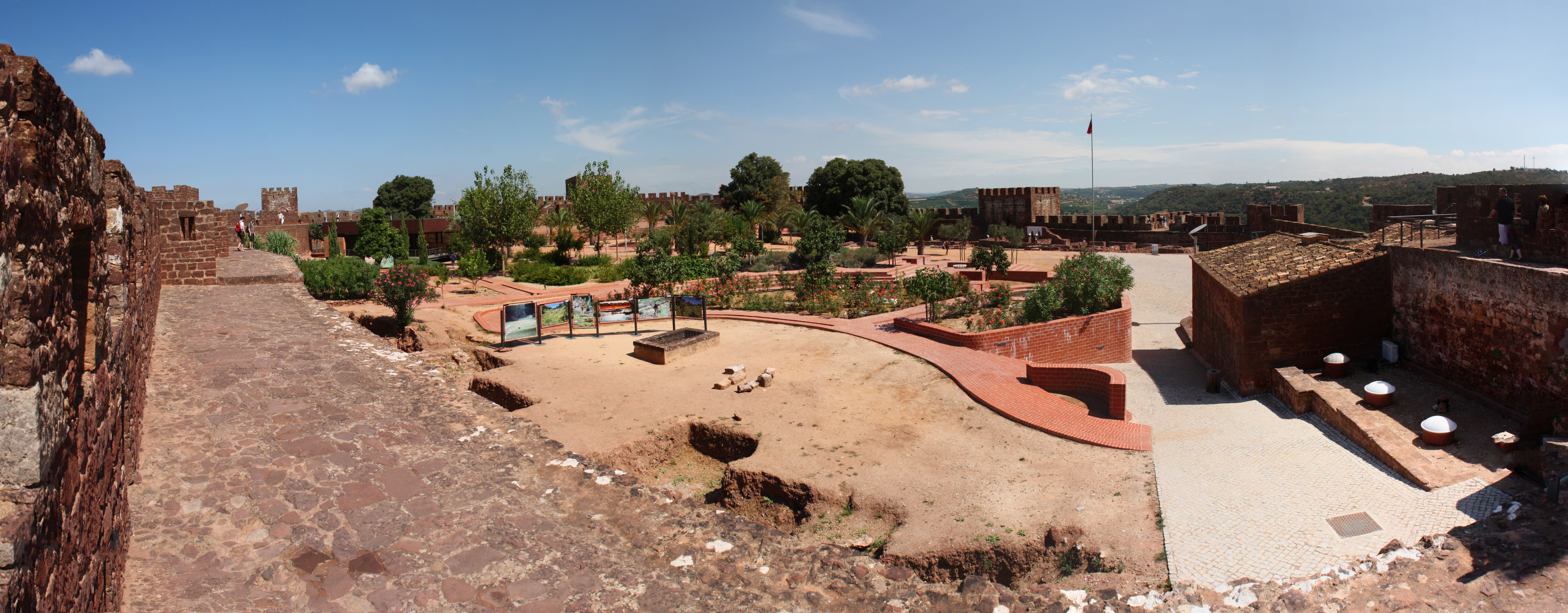 Castle in Silves, Algarve, Portugal